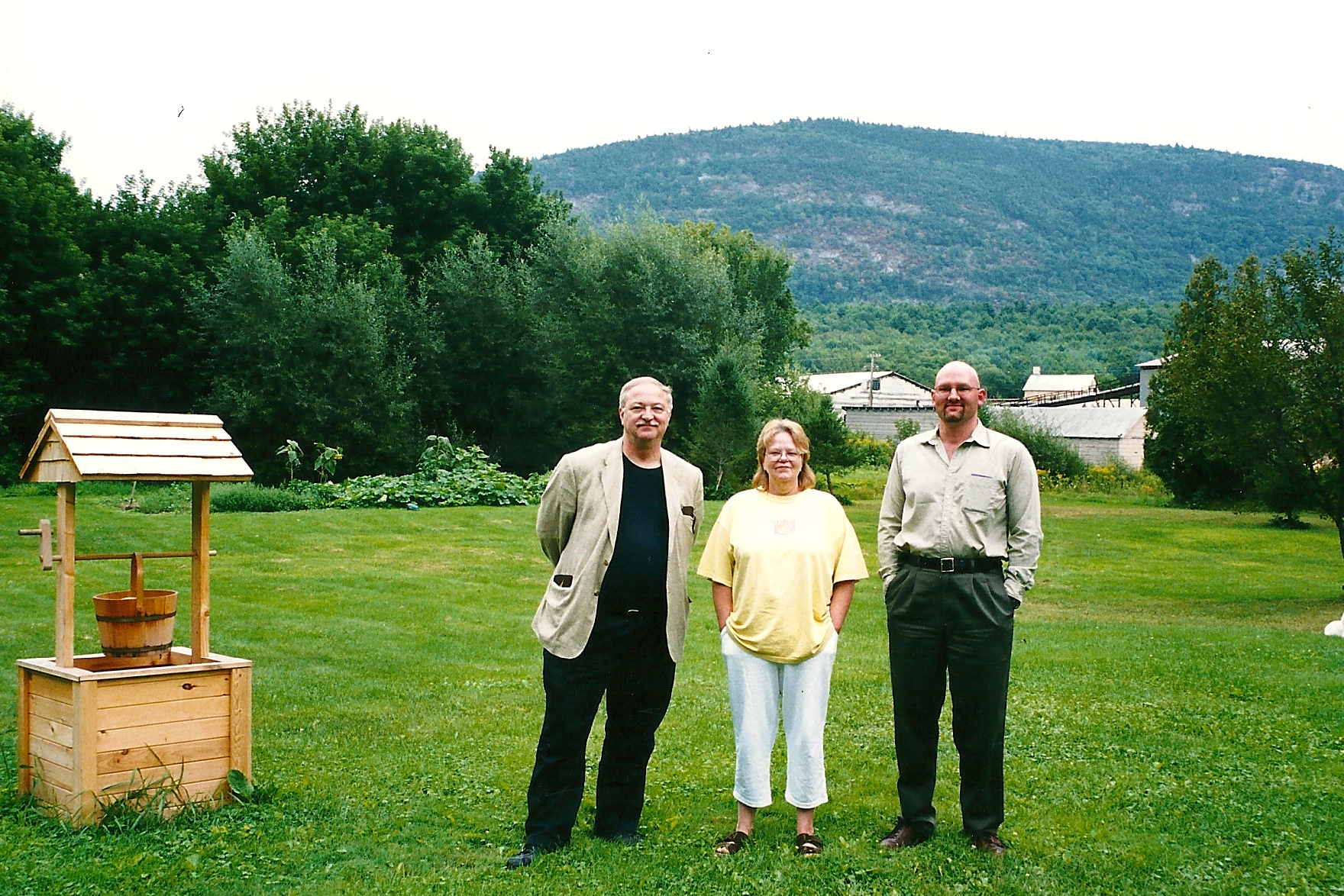 Investigators Benjamin Radford and Joe Nickell, co-authors of "Lake Monster Mysteries," with Champ eyewitness/photographer Sandra Mansi at her home in Vermont.